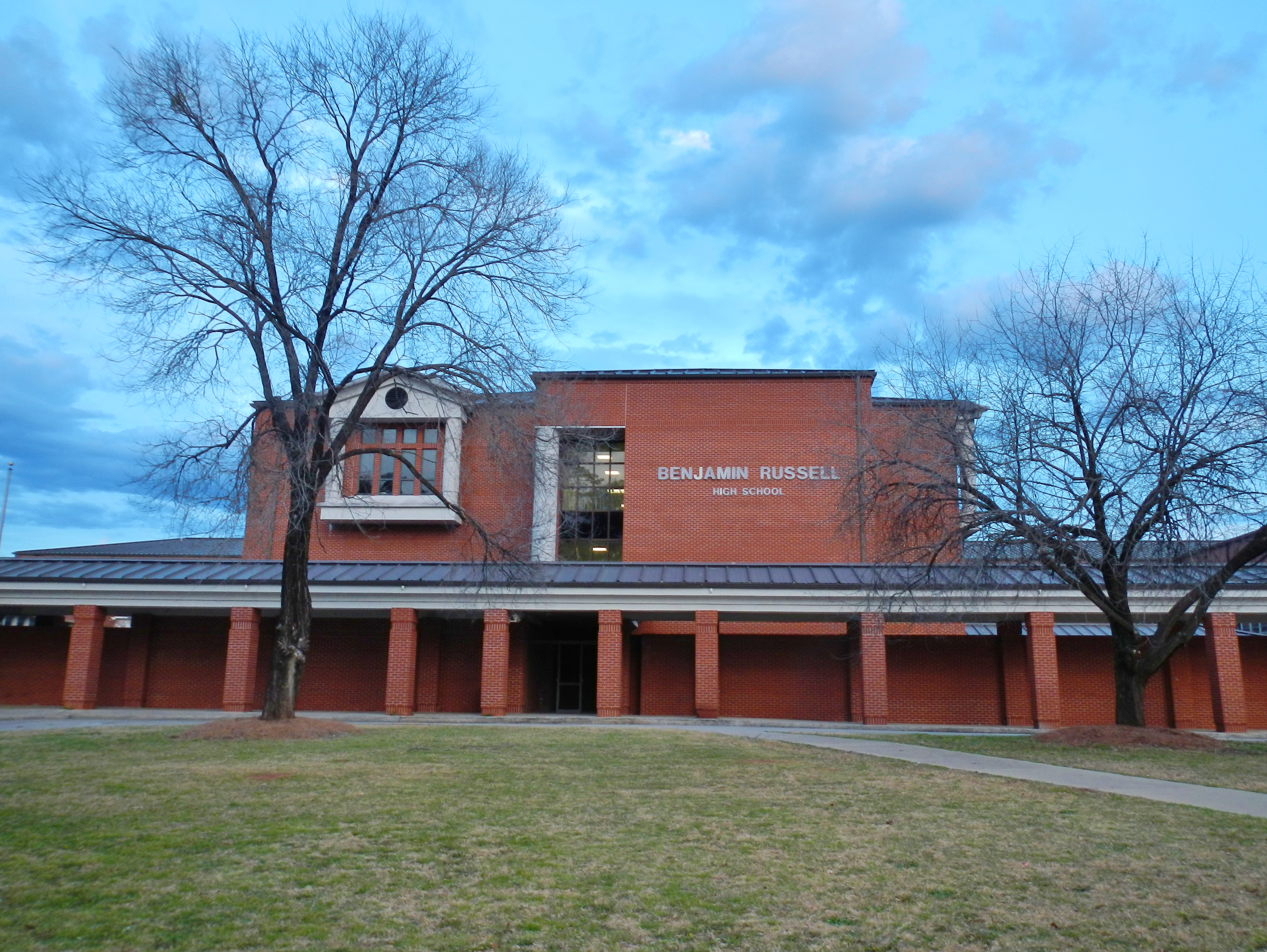 This is a photograph of Benjamin Russell High School in Alexander City, AL.